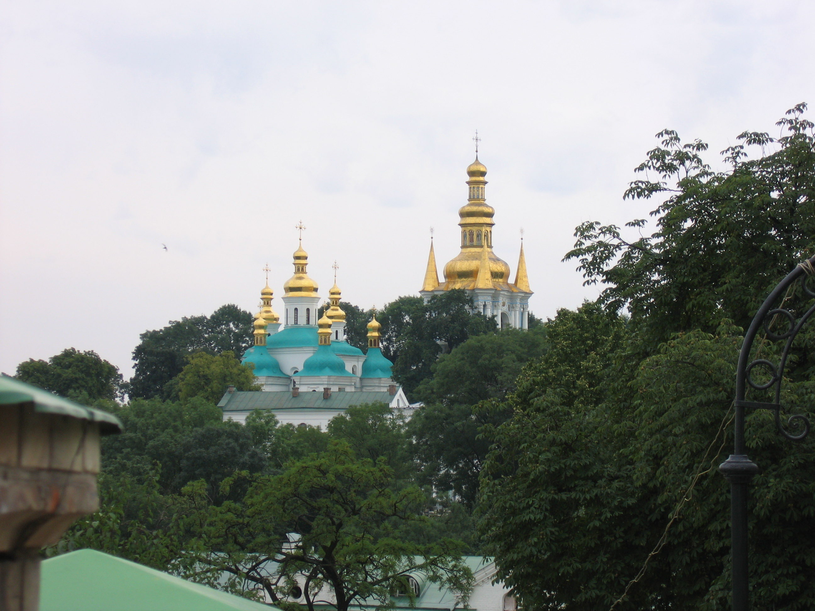 Kiev Pechersk Lavra (Kiev, Ukraine)